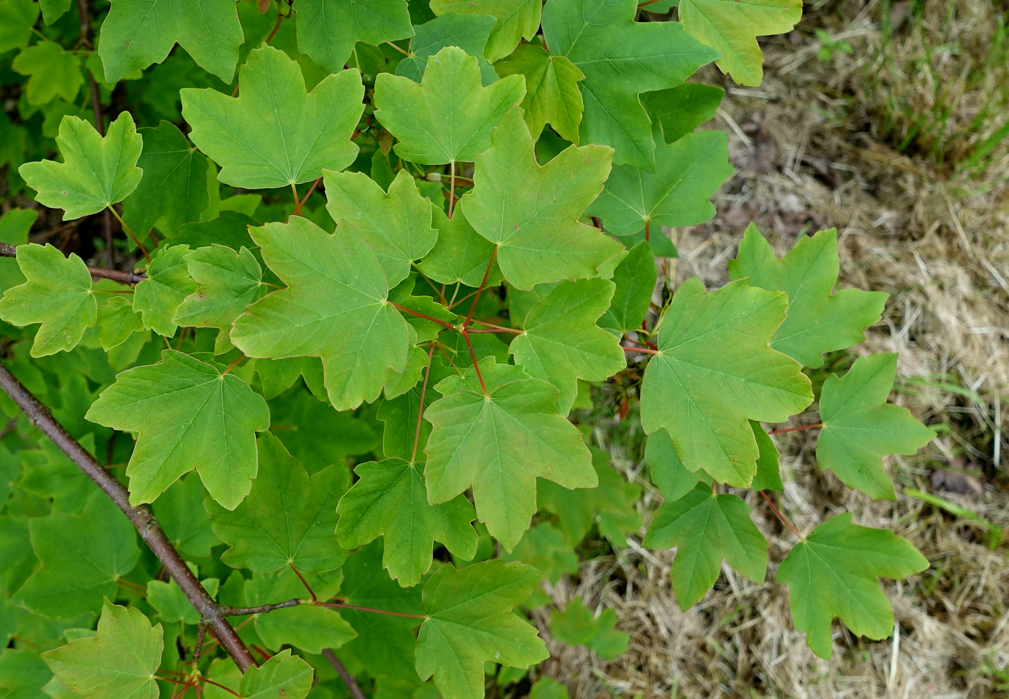 Horticultural specimen in Sir Harold Hillier Gardens - Romsey, Hampshire, England.